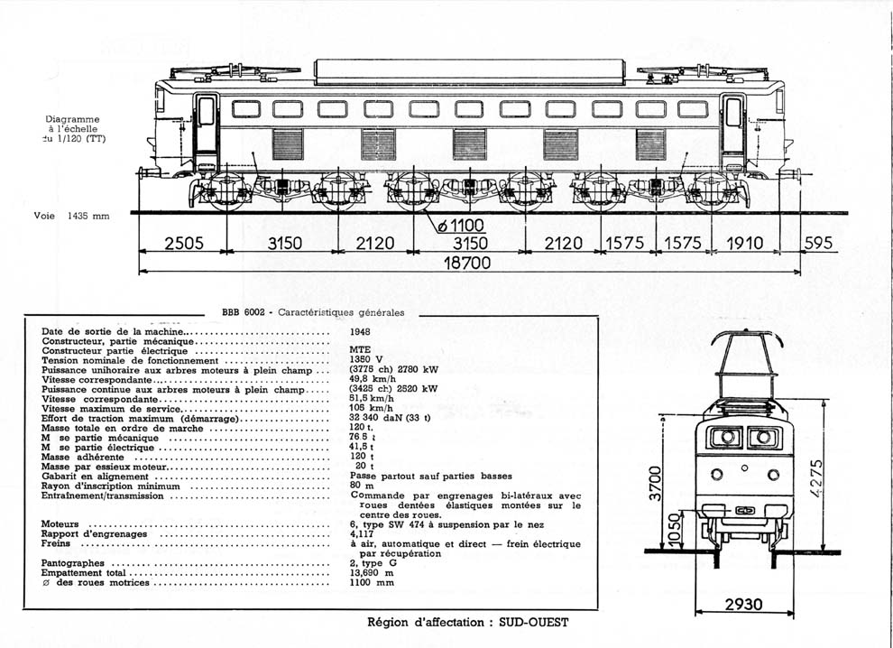 Drawing of electric prototype SNCF BBB 6002.